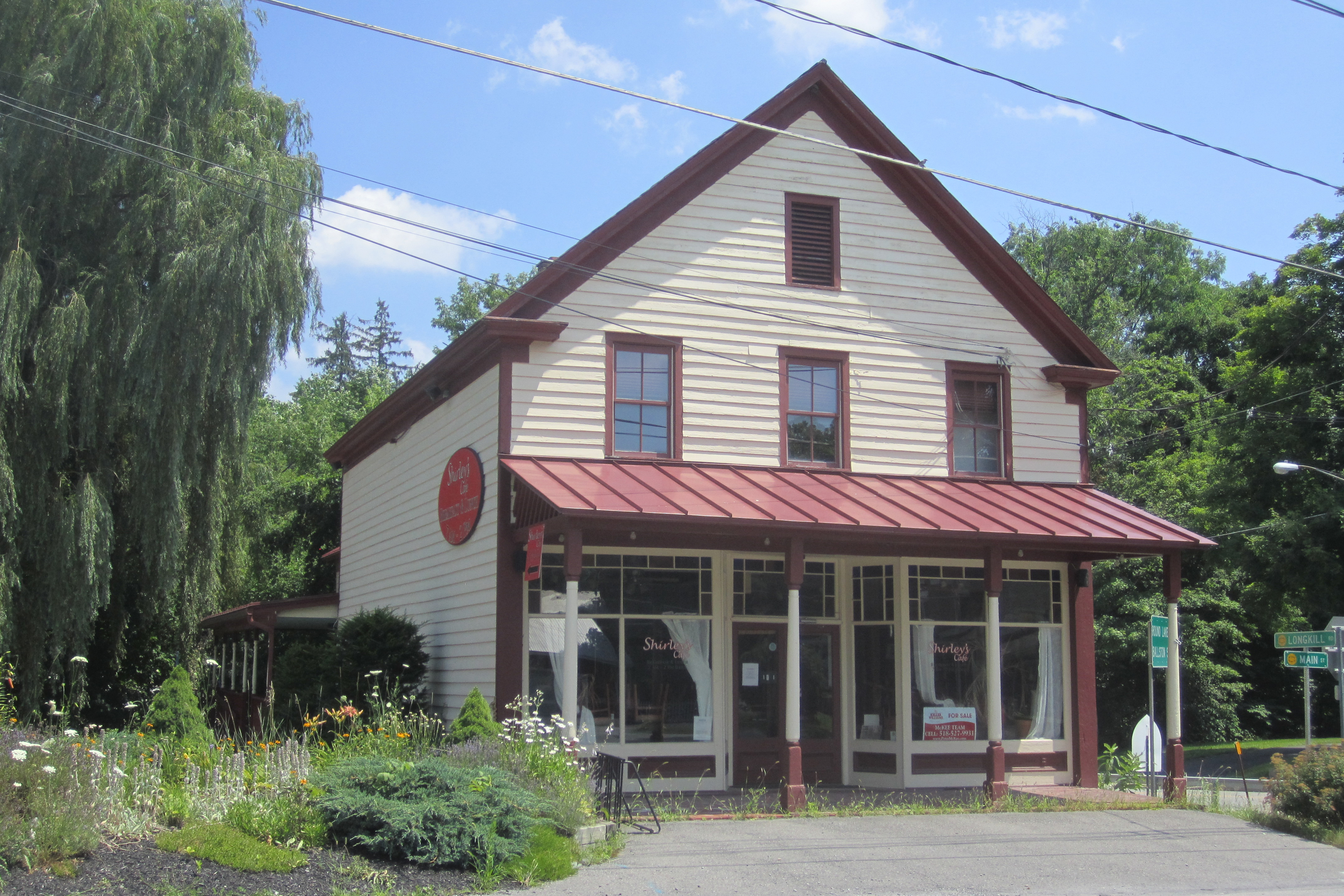 Jonesville Store, Clifton Park, New York.